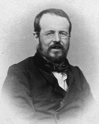 Portrait of Guillermo Prieto, a Mexican writer, journalist and liberal politician.